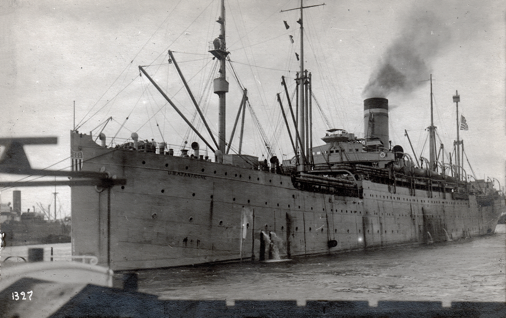 USAT Antigone in Antwerp, 1920. Original text: Amercian [sic] transport leaving Antwerp Belgium with Amercian [sic] troops 1922.